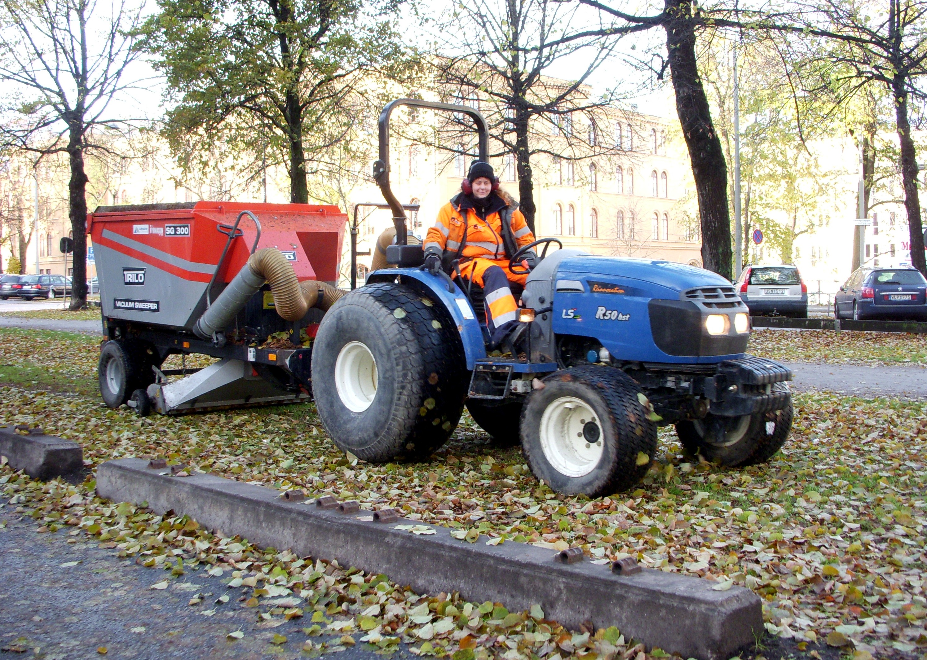 Autumn cleaning of leaves using a Trilo SG 300 vacuum sweeper, drawn by an LS R50 Reinnovation HST tractor, on Valhallavägen in Stockholm, Sweden